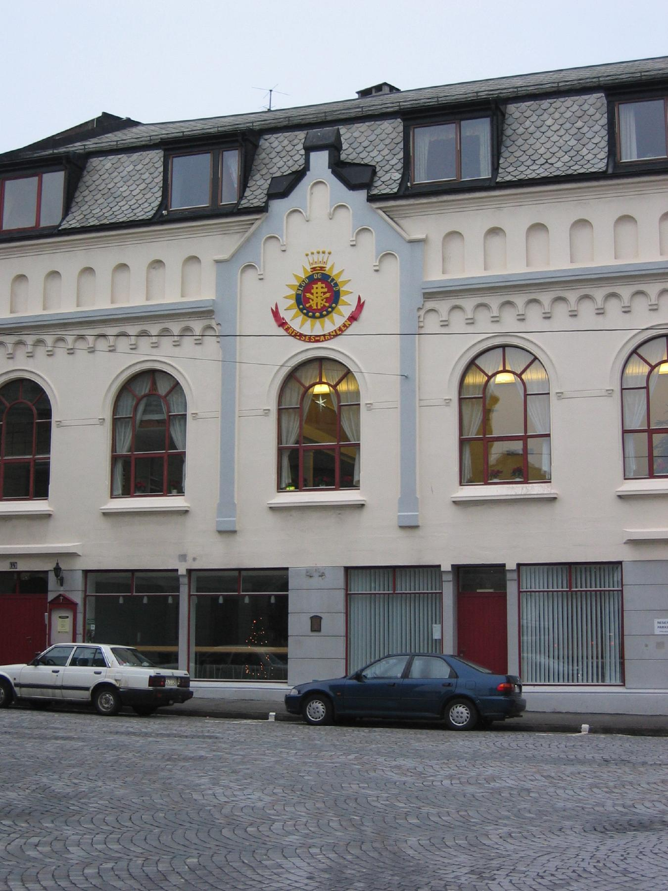 Salvation Army building in Ålesund.